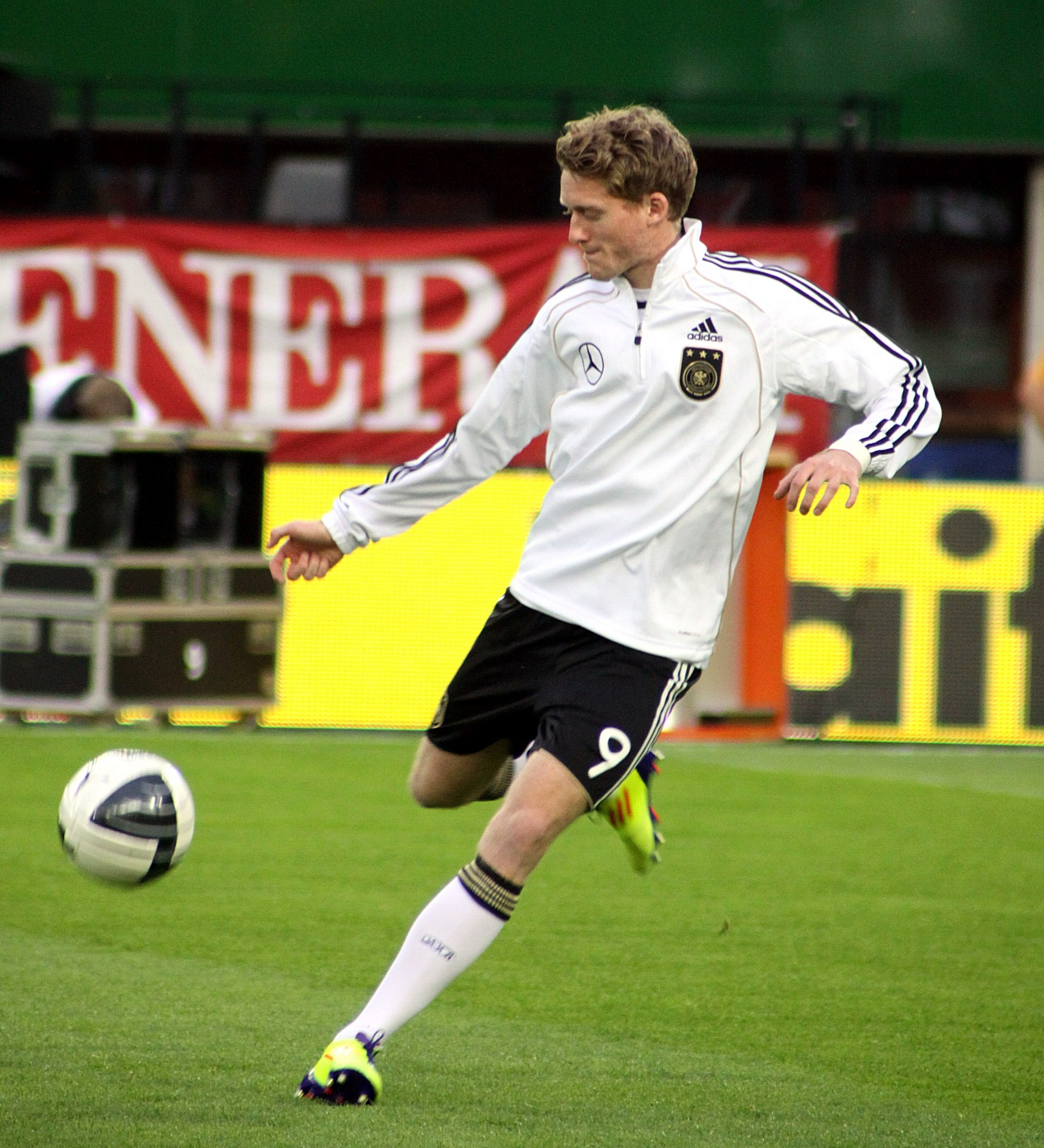 André Schürrle (Mainz 05), german national football team